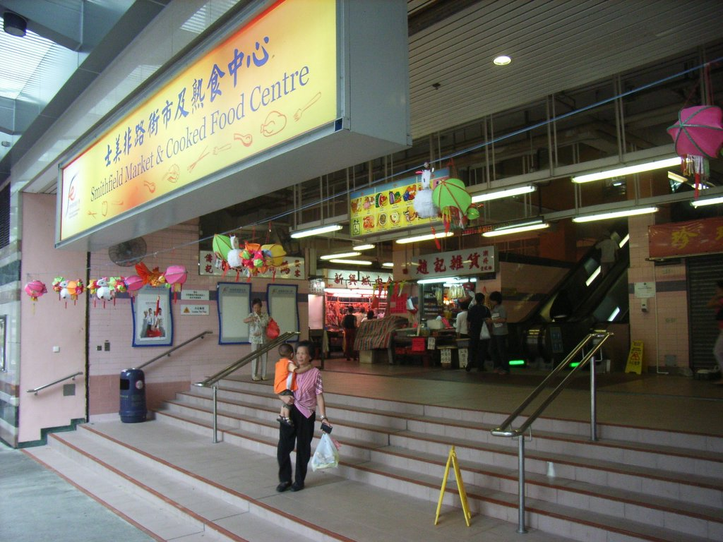 Smithfield 士美非路, Kennedy Town, Hong Kong (By KennedyTom).